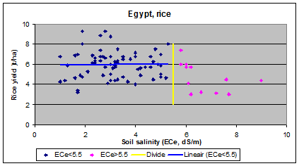 Yield of rice (paddy) versus soil salinity (ECe, dS/m) measured in farmers' fields in the Nile Delta, Egypt